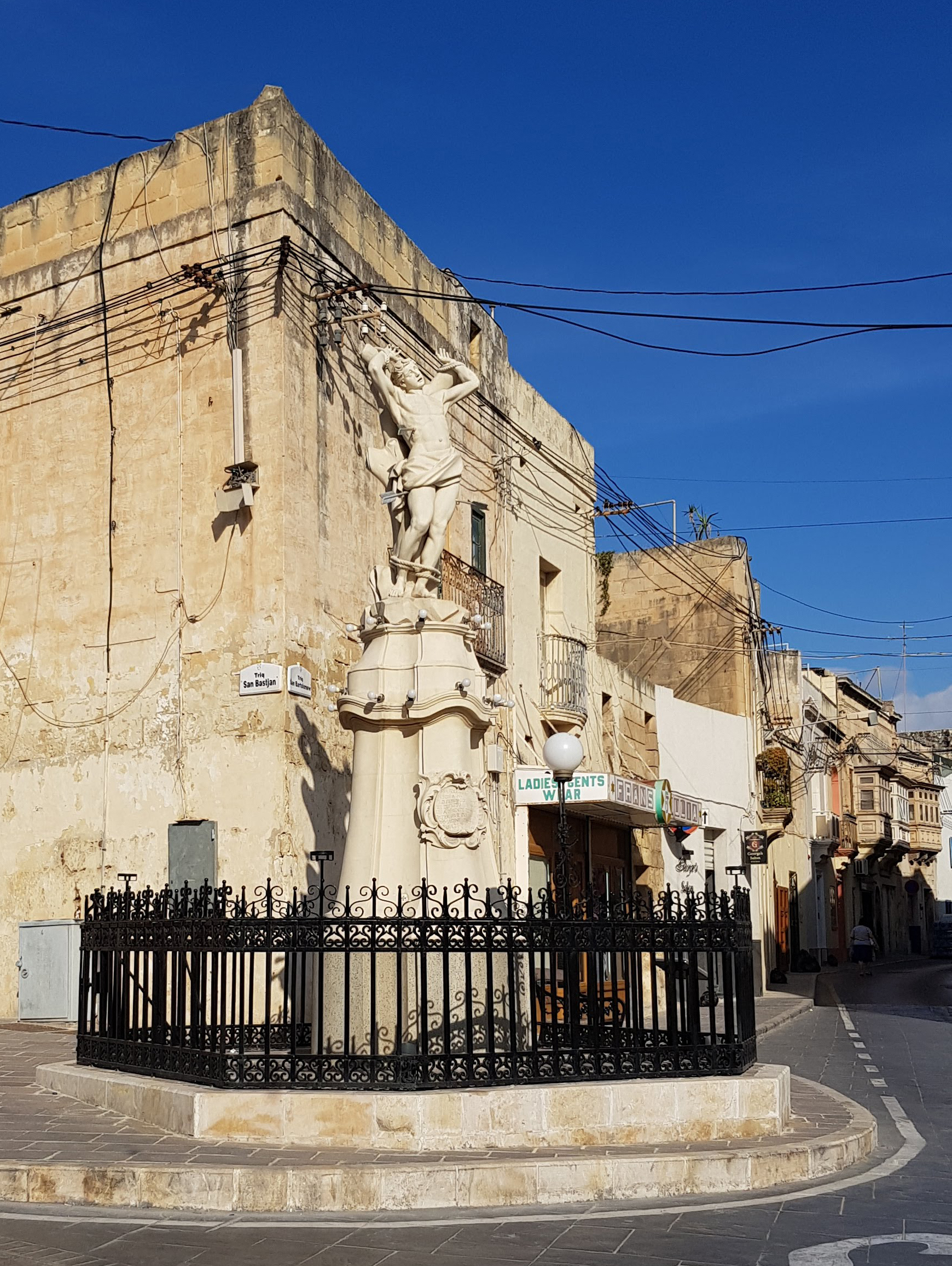 Statue of St. Sebastian in Triq San Bastjan, Qormi, Malta This media is about Maltese cultural property with inventory number 00336.